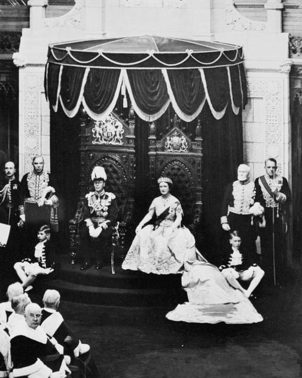 H.M. King George VI and Queen Elizabeth in the Senate Chamber giving Royal Assent to Bills, Ottawa, Canada. Prime Minister William Lyon Mackenzie King standing to the left of Their Majesties, legislative pages seated at their feet, and Justices of the Supreme Court of Canada seated in the foreground of the image.